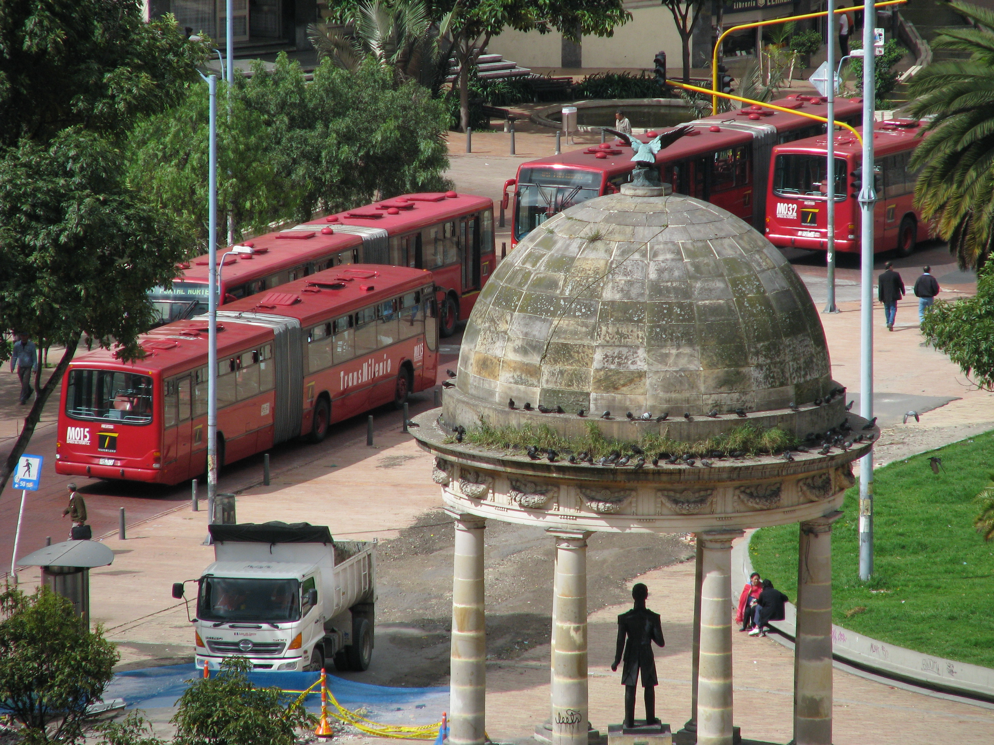 Transmilenio buses in the Eje Ambiental in the Aguas neighborhood of Bogota, Colombia.